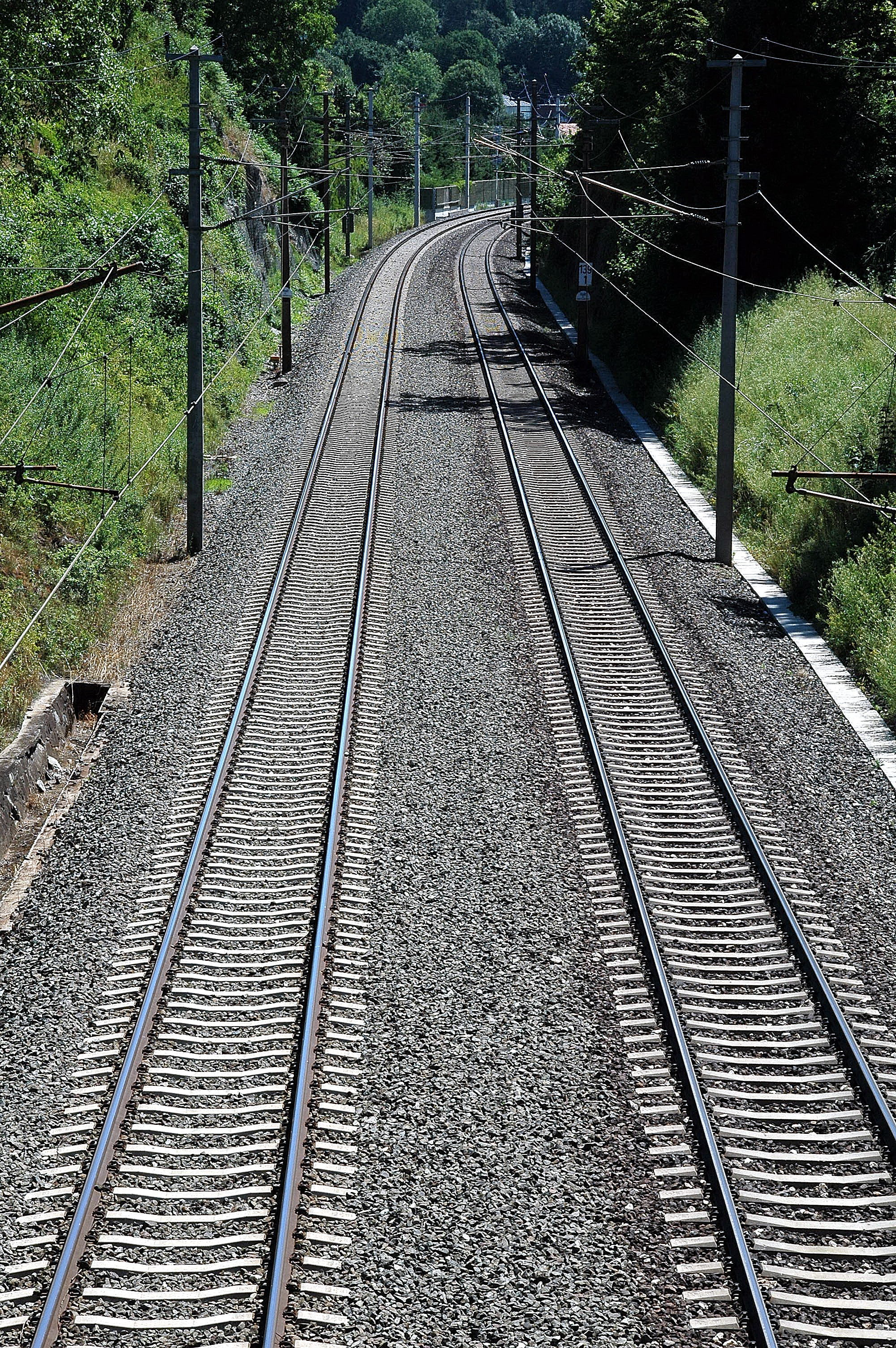 Railway tracks at Poertschach, Carinthia, Austria